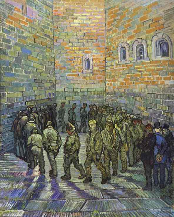 Prisoners' Round , or The Prison Courtyard (after G. Doré, 1872). 1890. Oil on canvas. The Pushkin Museum of Fine Art, Moscow, Russia.